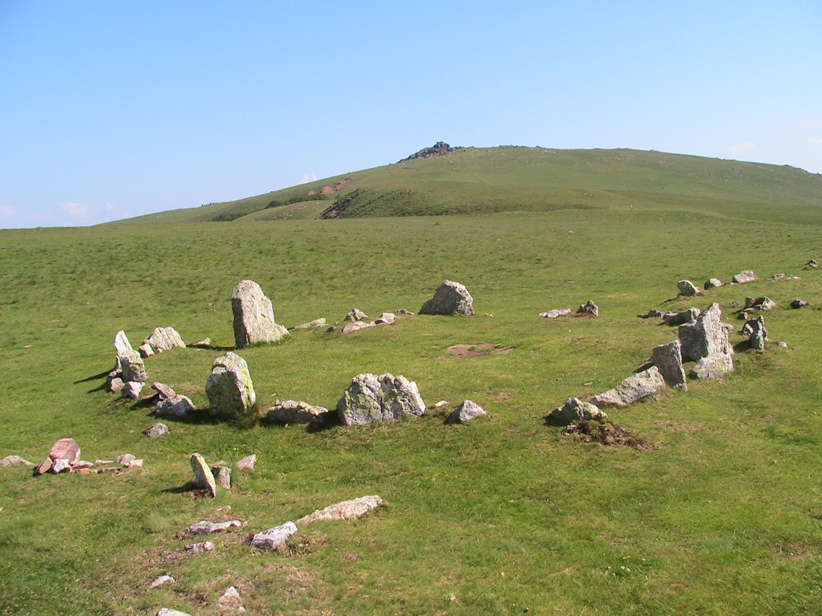 Harrespil or baratz, at Okabe, Basque Pyrenees, SE of Saint-Jean-Pied-de-Port, 64, France.